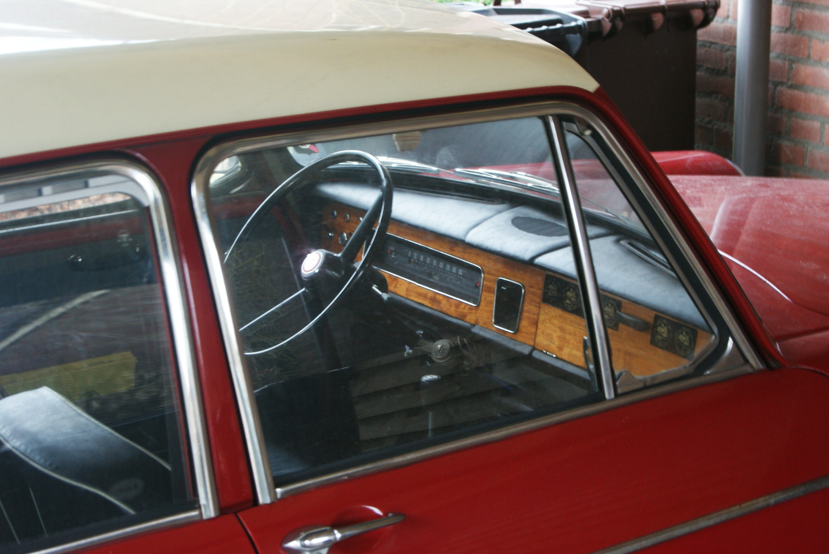 AM-05-86